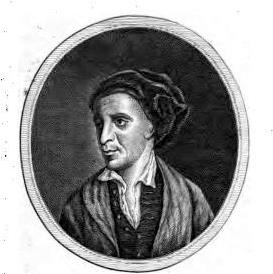 Gorges Edmond Howard (1715-1786) was a miscellaneous writer from Coleraine